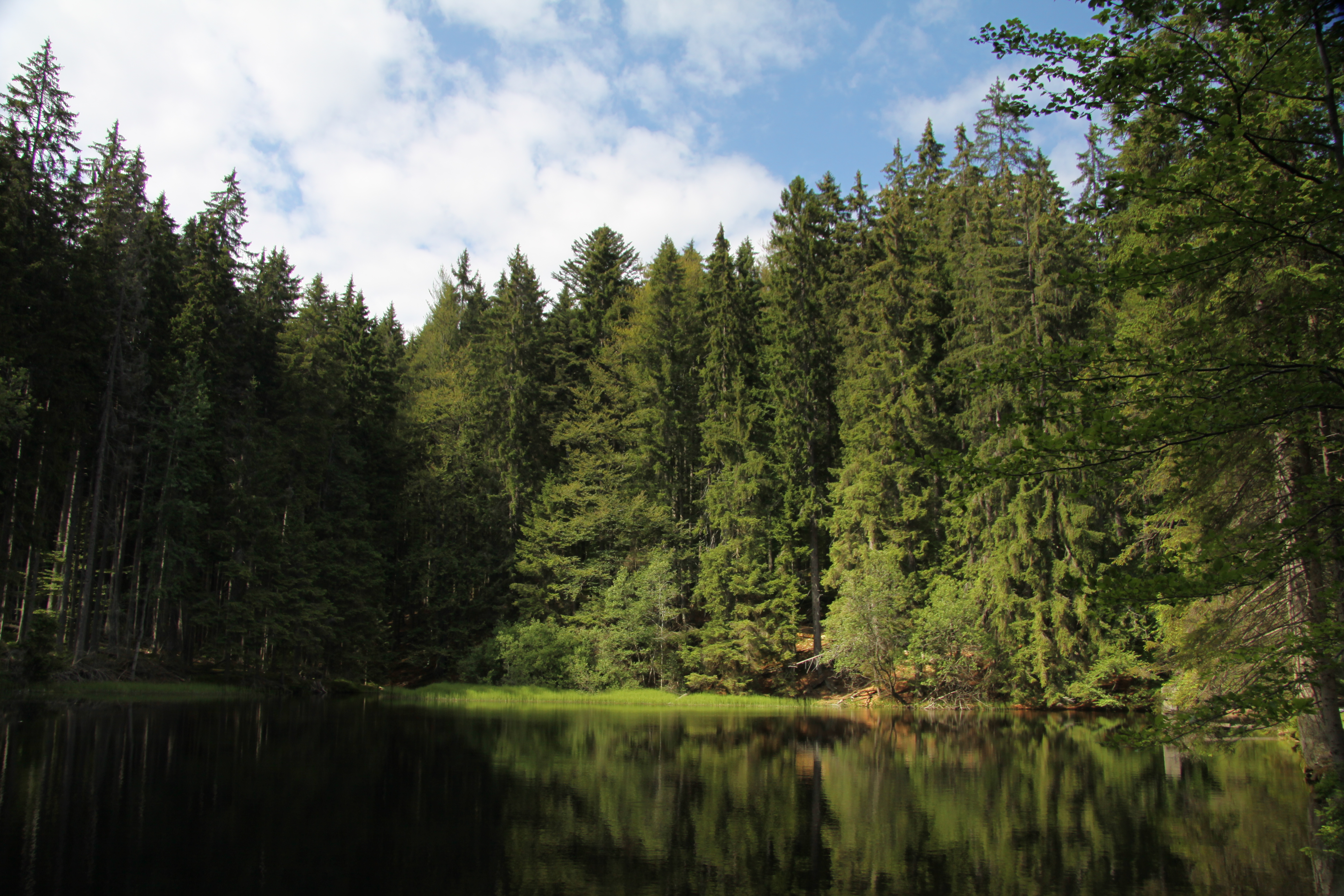 Boubínské jezírko (artifical lake) in national nature reserve Boubínský prales, Prachatice District, Czech Republic - Google Maps - Google Earth